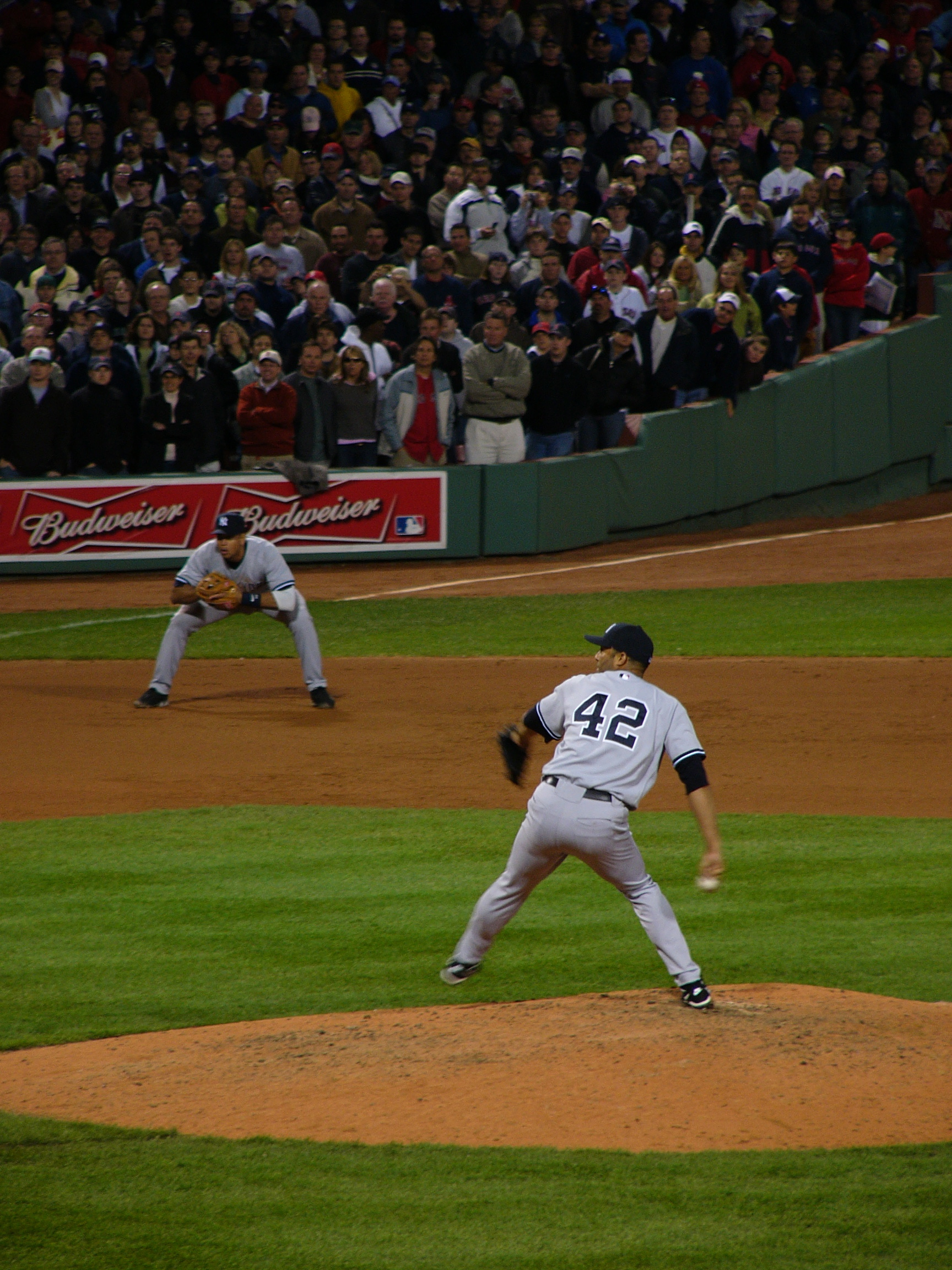 Mariano Rivera of the New York Yankees, pitching against the Boston Red Sox at Fenway Park in Boston, MA on May 23, 2006